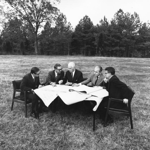 The founders of the RTI Foundation planning the Research Triangle Park in the 1950s